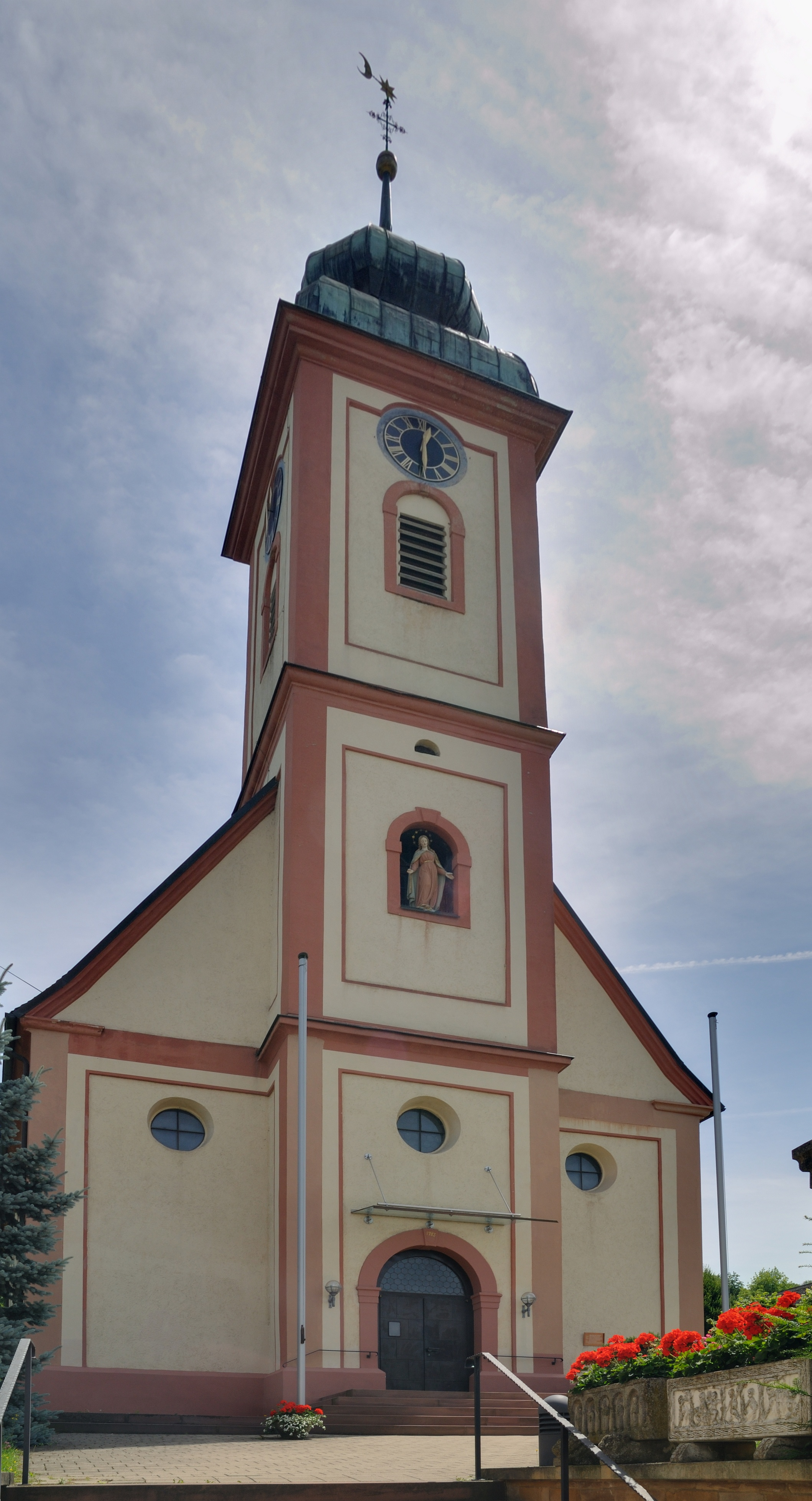 Bad Bellingen: Saint Leodegar Church